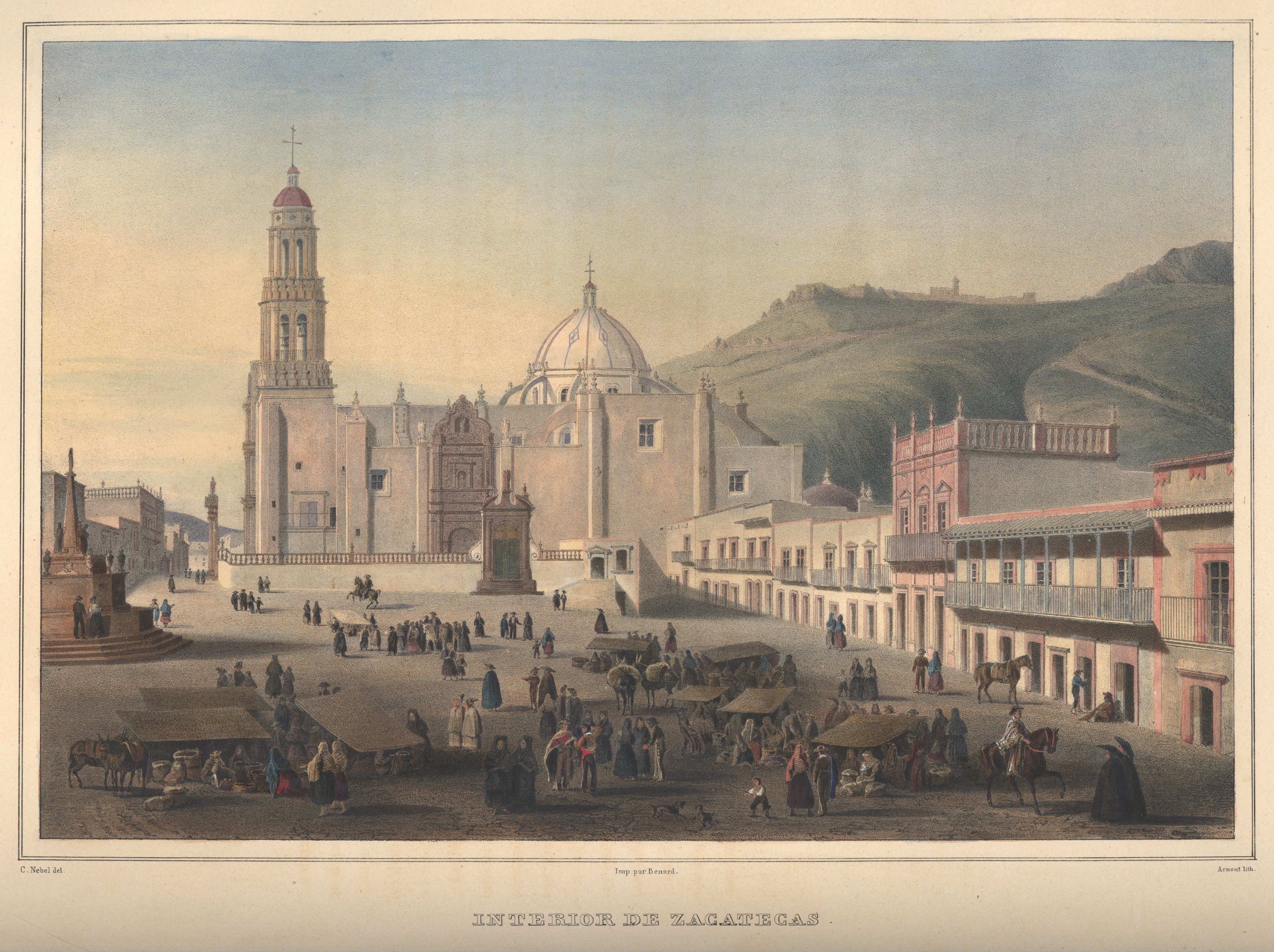 Interior de Zacatecas, view of Zacatecas, Zacatecas. Hand-colored lithograph highlighted with gum arabic. Original size (neat lines): 34.1×23.4 cm.